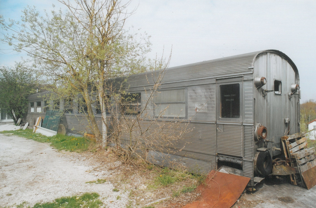 Carbody n° Amyfi 181 from the stainless steel rubber-tyre train set of the SNCF (1948)